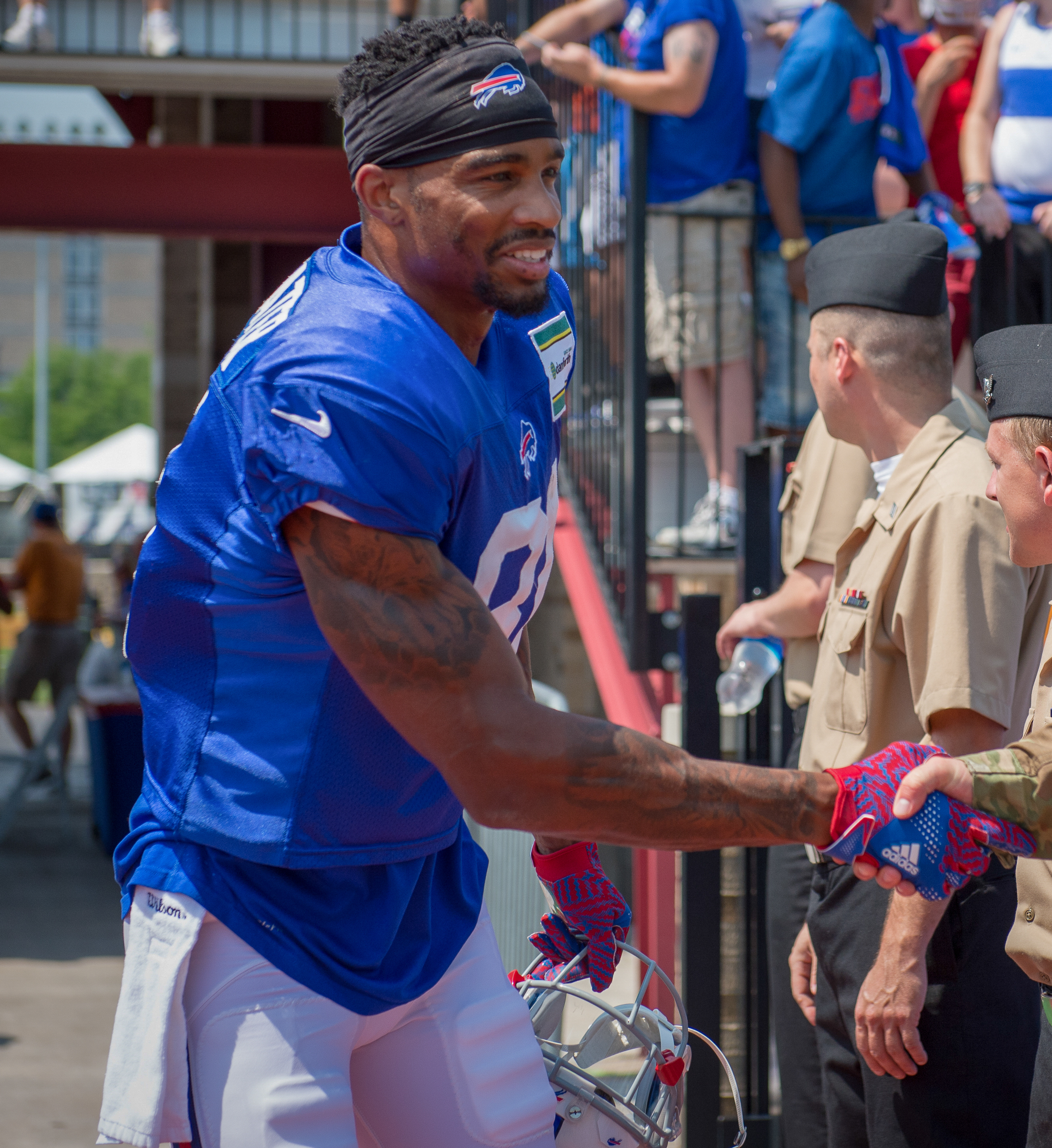 Sgt. Dillon Donorovich, assigned to Headquarters Service Company, 642nd Aviation Support Battalion, New York Army National Guard, shakes hands with Buffalo Bills wide receiver Rod Streater during the Buffalo Bills’ training camp at St. John Fisher College, Rochester, N.Y., Aug. 5, 2018. Members of military units from Western New York, were invited by the team to participate in NFL’s Military Appreciation Week. (U.S. Air National Guard Photo by Master Sgt. Brandy Fowler)